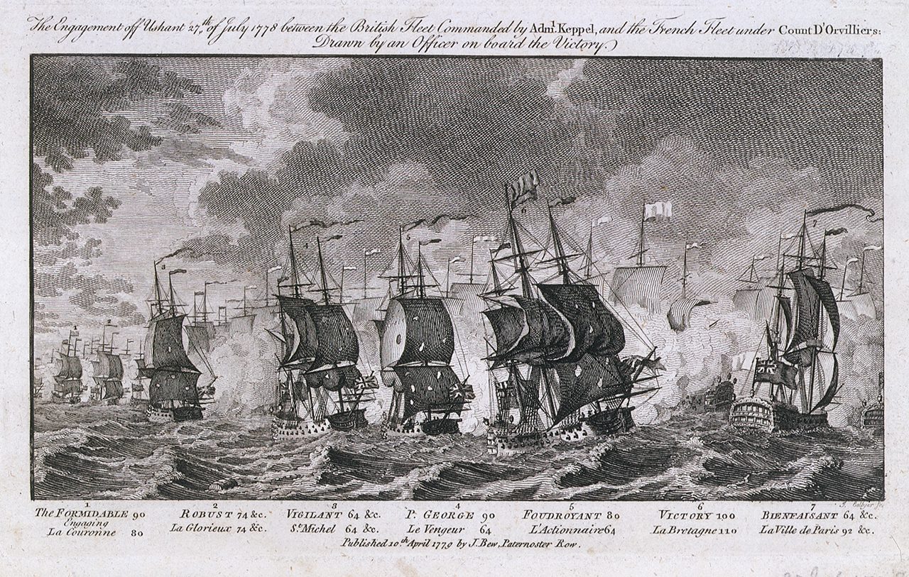 Battle of Ushant, 1778. Central view of the battle with the flagships.